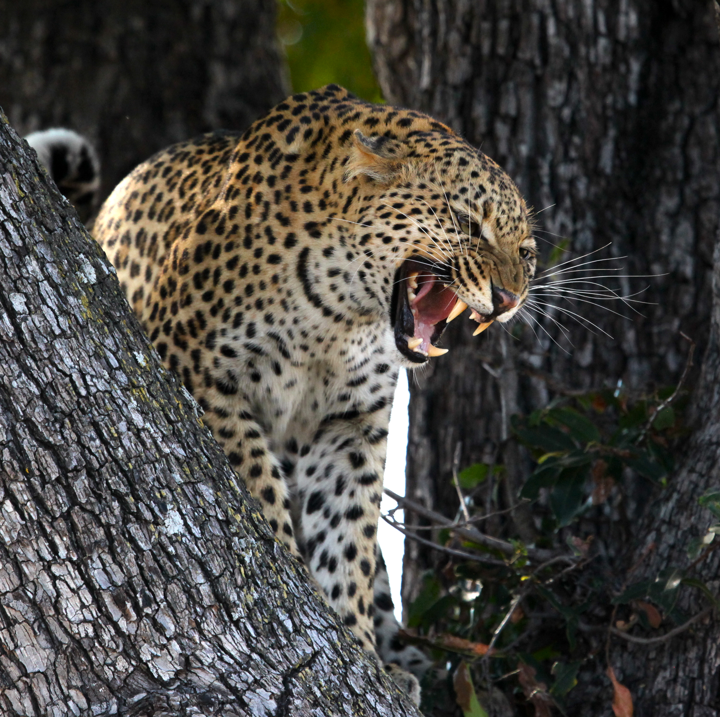 A female leopard in Vumbura Plains, Botswana.